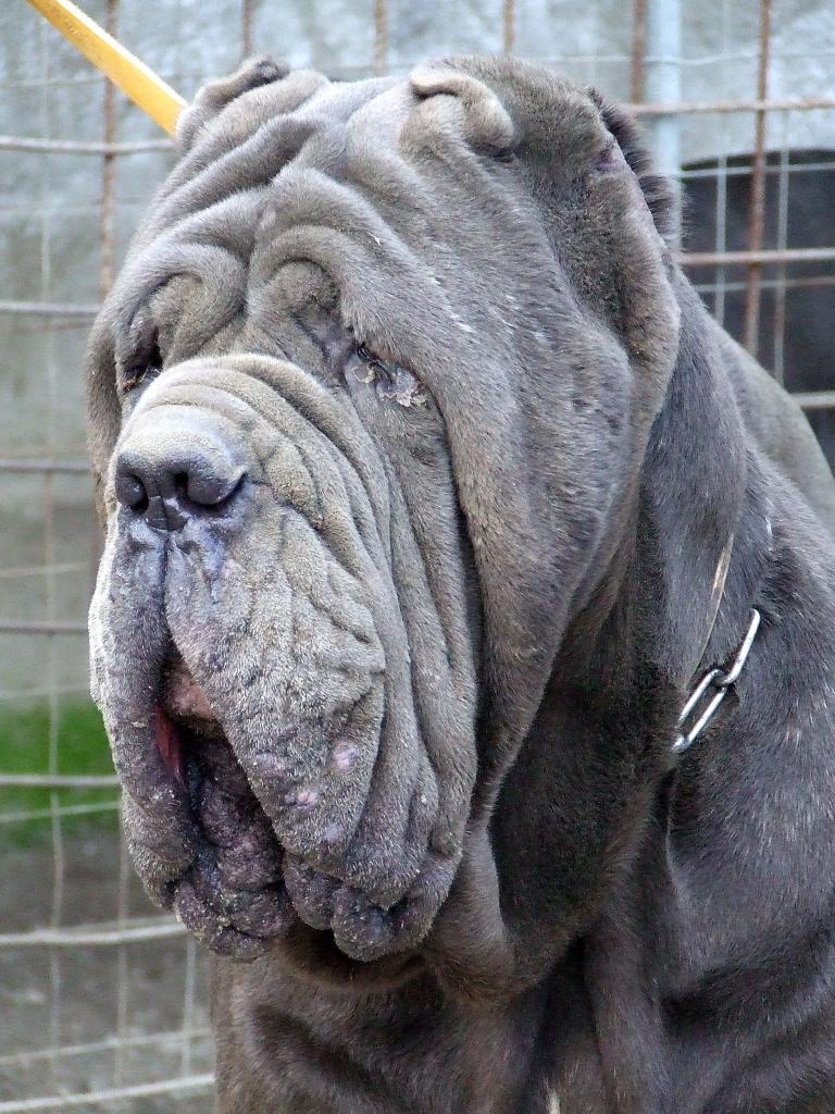 Photo taken by me Philip Thompson of Anacronismo Mastino 31st October 2006 on a visit to Napoli